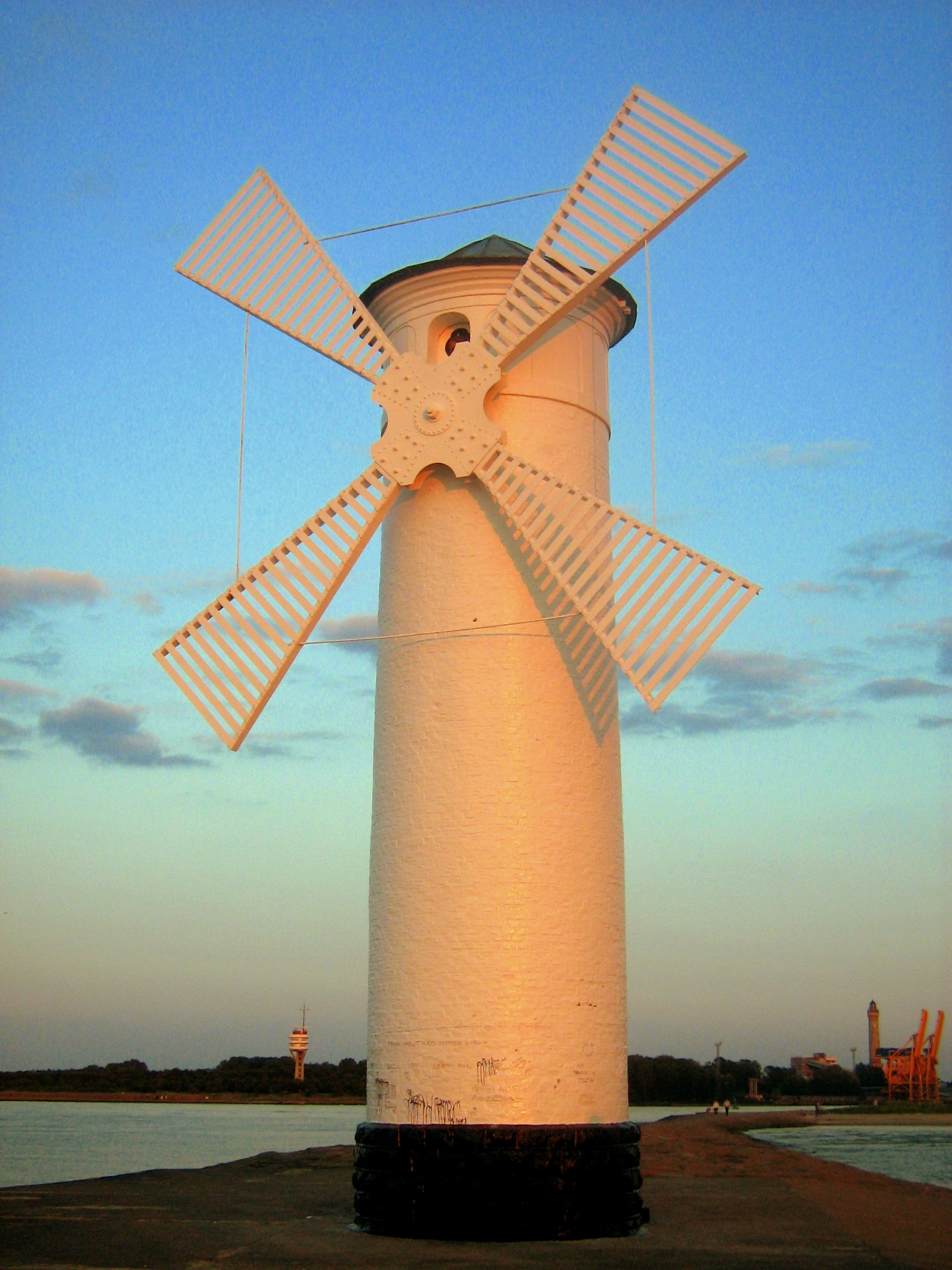 Stawa Młyny in Świnoujćie